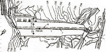 Plan of Săcele Dam on Târlung River in Romania